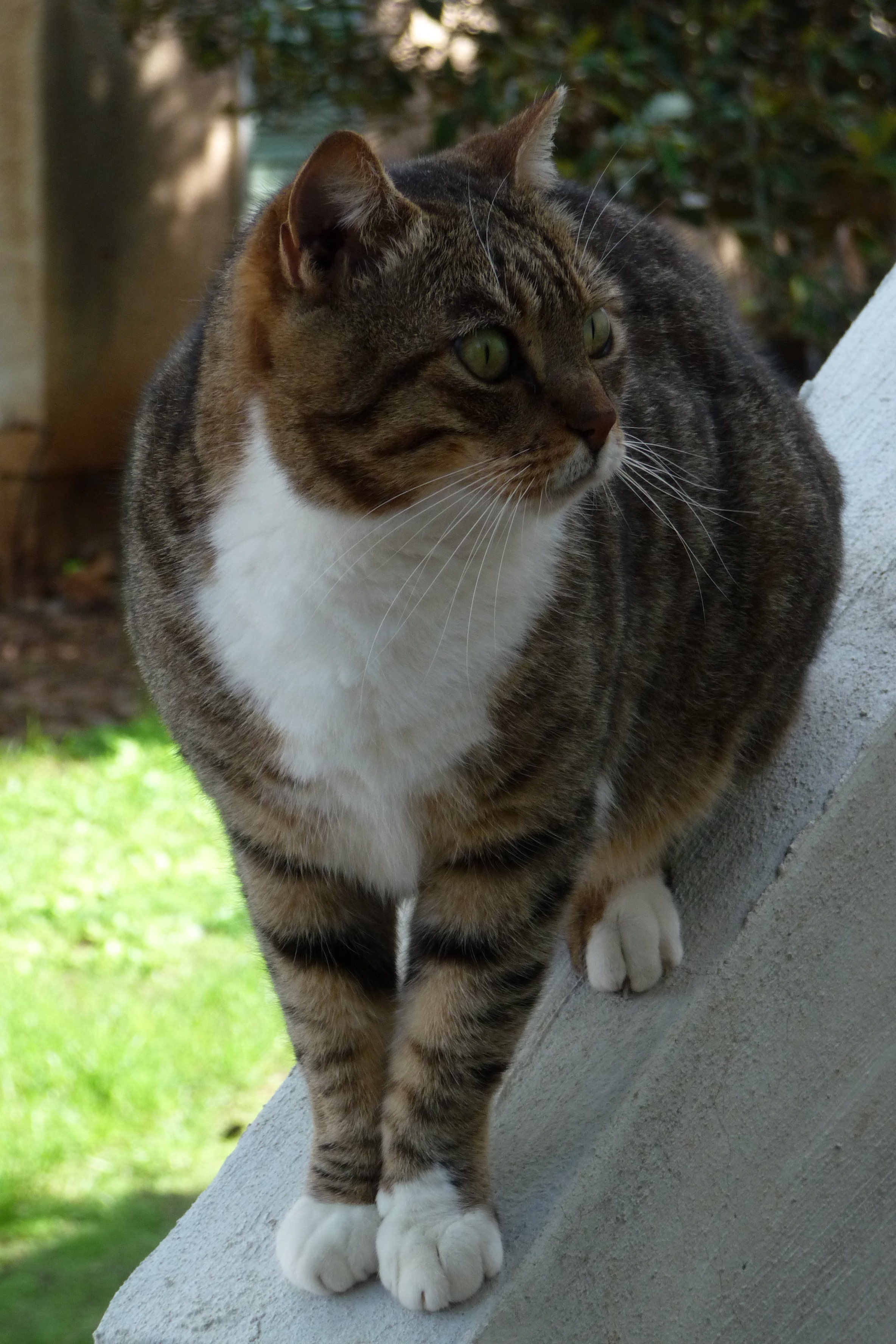 Beit Oren is a kibbutz in northern Israel. It falls under the jurisdiction of Hof HaCarmel Regional Council.